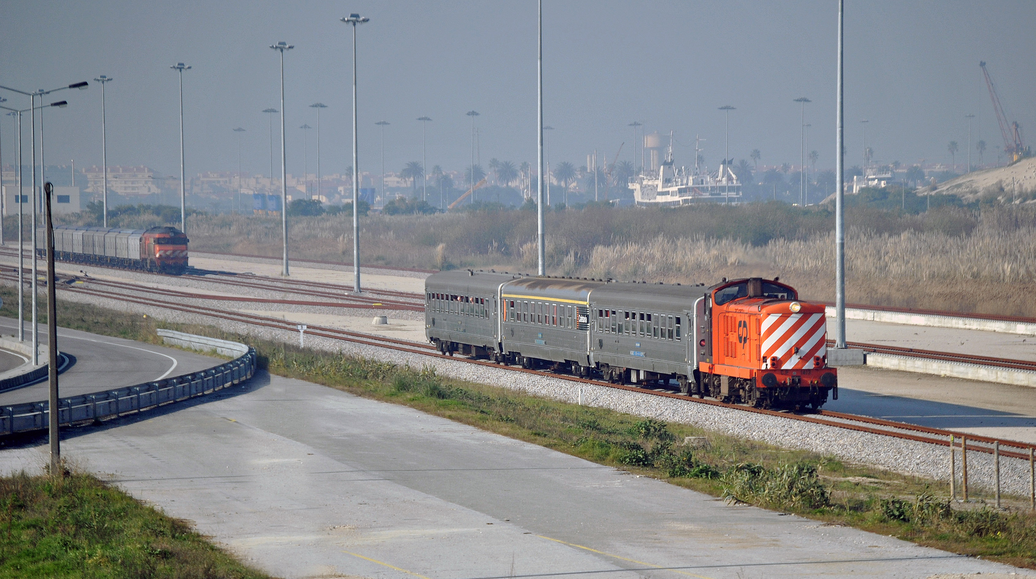 PTG Tours, 2011 Edition.